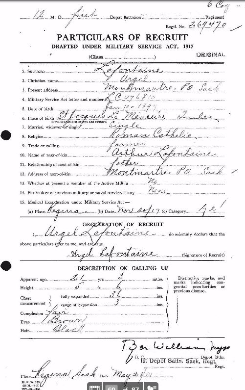 Dated November 20, 1917, Urgel Lafontaine of Montmartre enlisted to serve with the Saskatchewan Regiment, 214th Battalion, in England and France during the late years of World War I